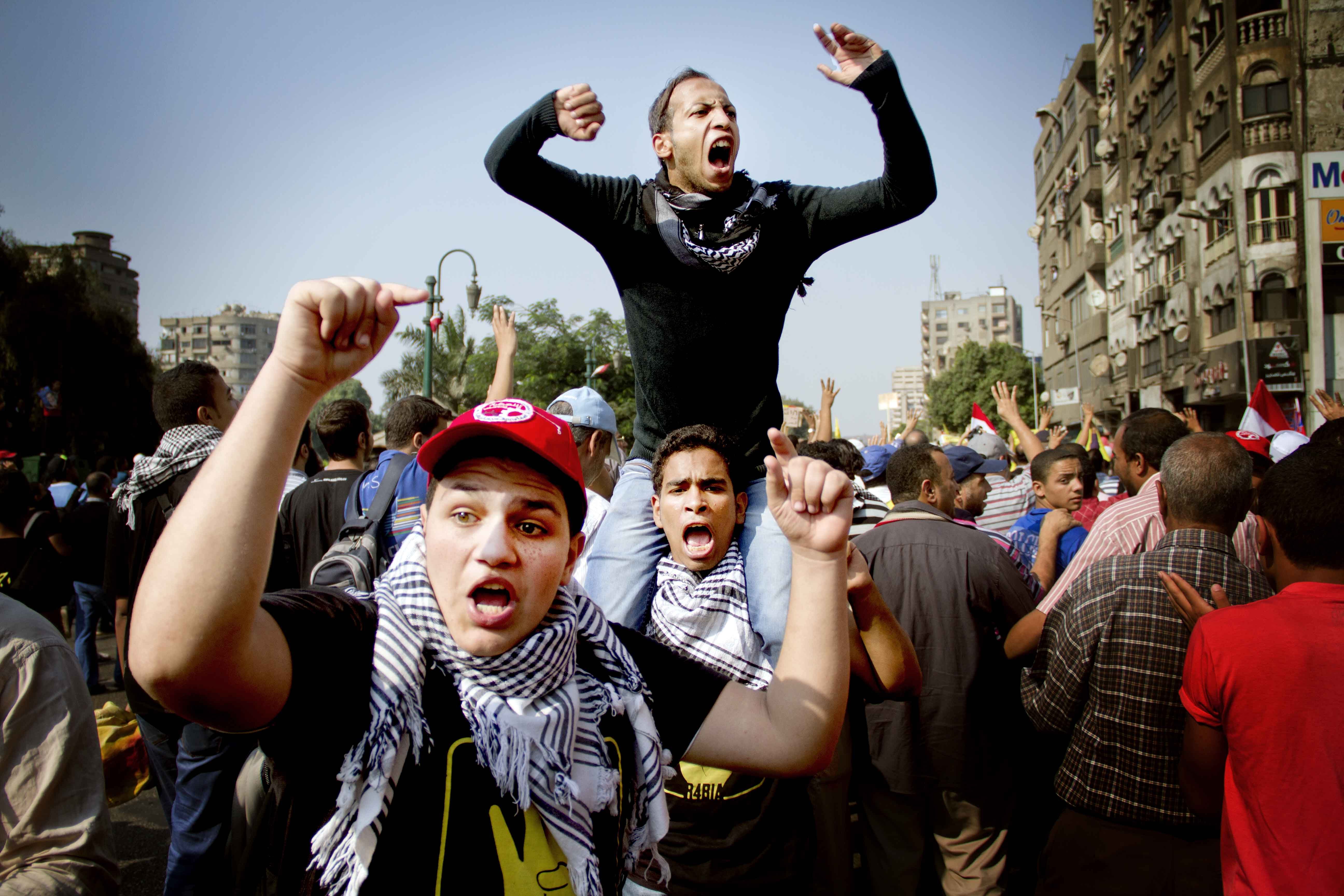 Original description: "Anti-coup protesters shout slogans in Cairo, Oct. 6, 2013. (H. Elrasam for VOA)"